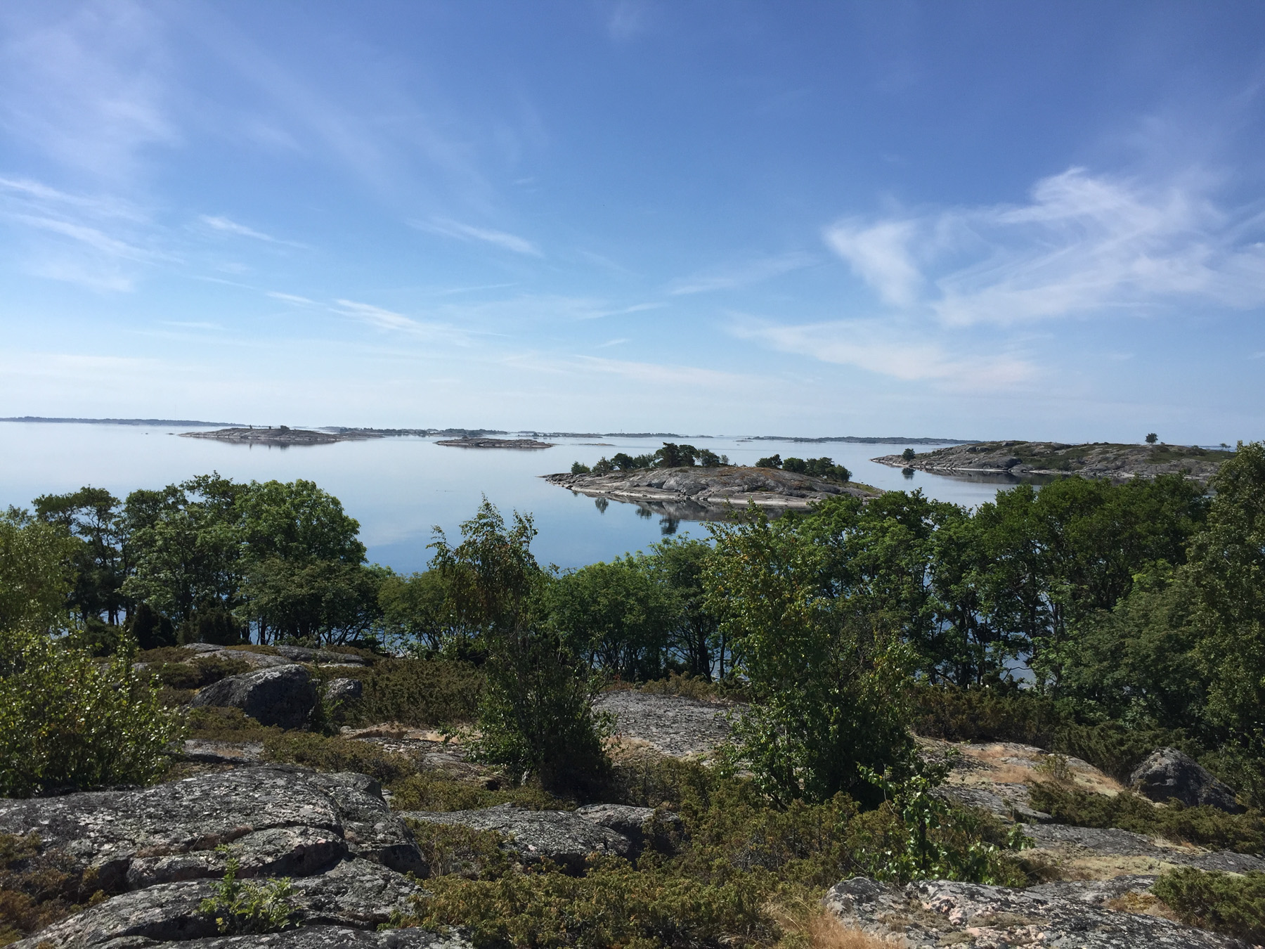 Blick rakt söderut från Älveskärs högsta punkt